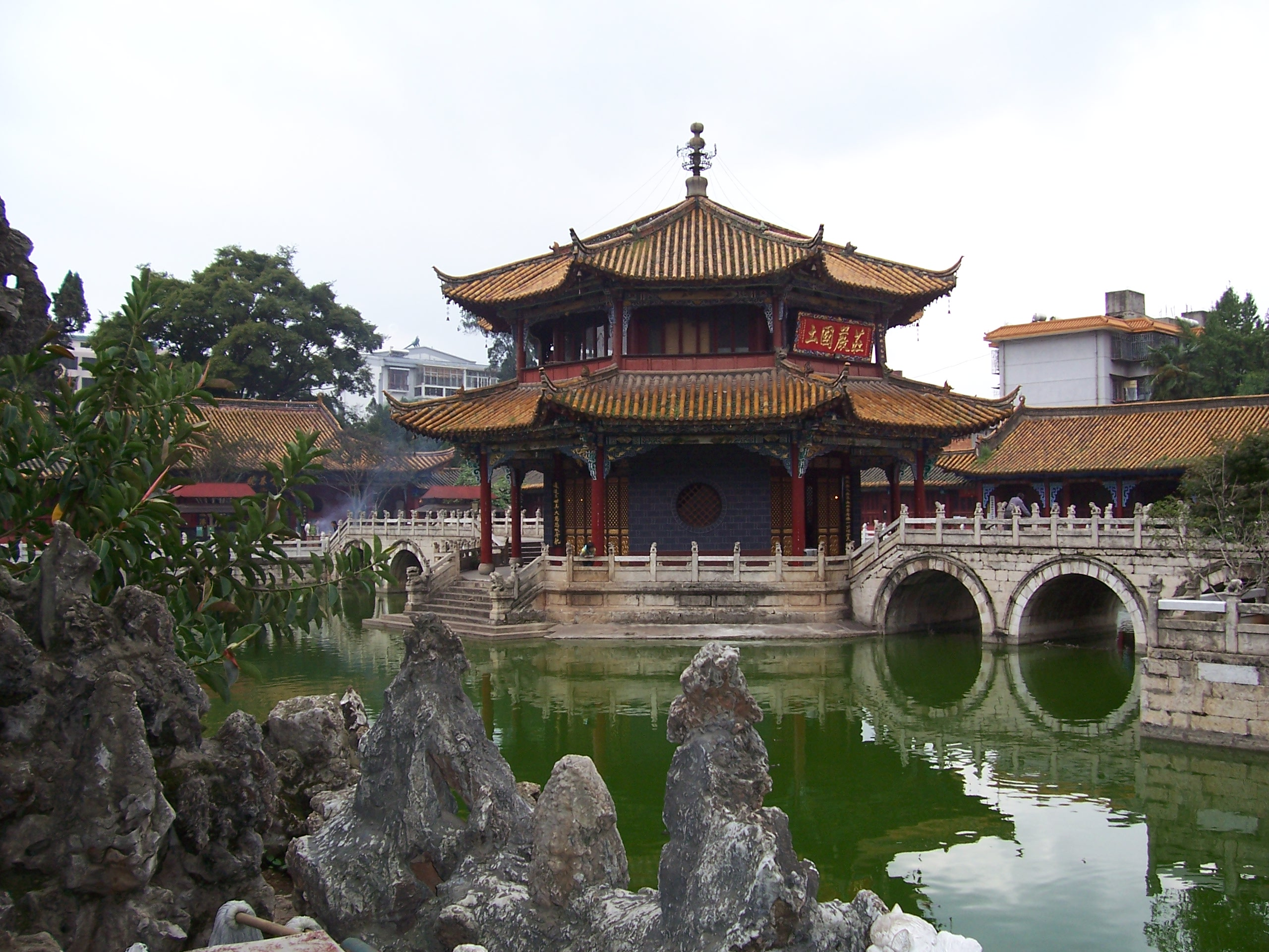 Yuantong Temple in Kunming, YunNan province, China. It is the largest Buddhist complex in Kunming.